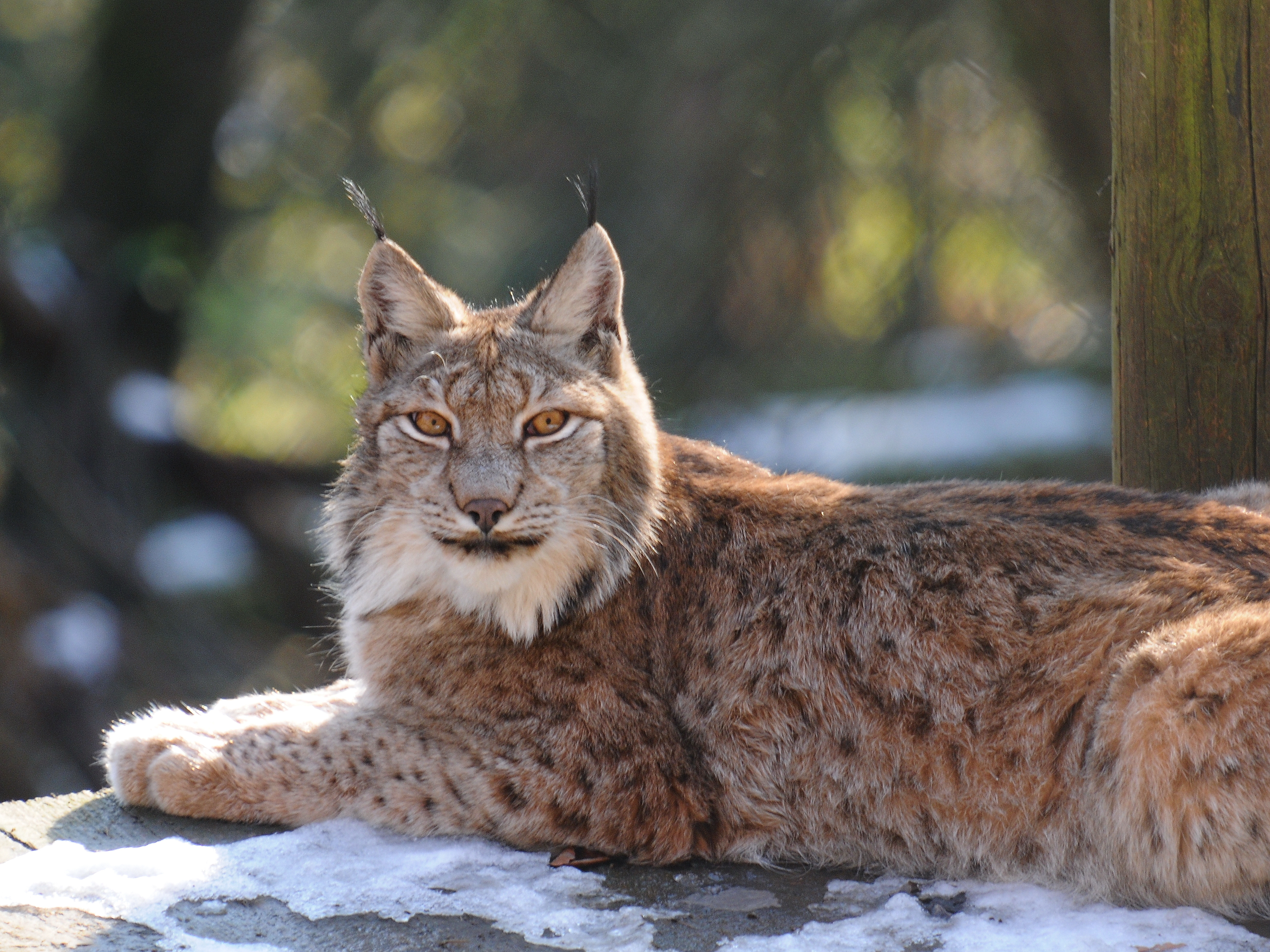 The Eurasian lynx (Lynx lynx) is a medium-sized cat native to European and Siberian forests, where it is one of the predators. It is also known as the European lynx, Common lynx , the northern lynx, and the Siberian or Russian lynx. While its conservation status has been classified as "Least Concern", populations of Eurasian lynx have been reduced or extirpated from western Europe, where it is now being reintroduced.